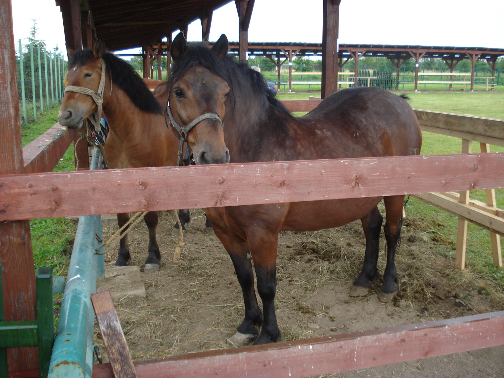 Međimurski konj (Međimurec) = horse breed of Medjimurje, northern Croatia, at MESAP trade fair in Nedelišće - brown maresHrvatski: Međimurski konj (Međimurec) = pasmina iz Međimurja, sjeverna Hrvatska, na sajmu MESAP u Nedelišću - kobile, dorati